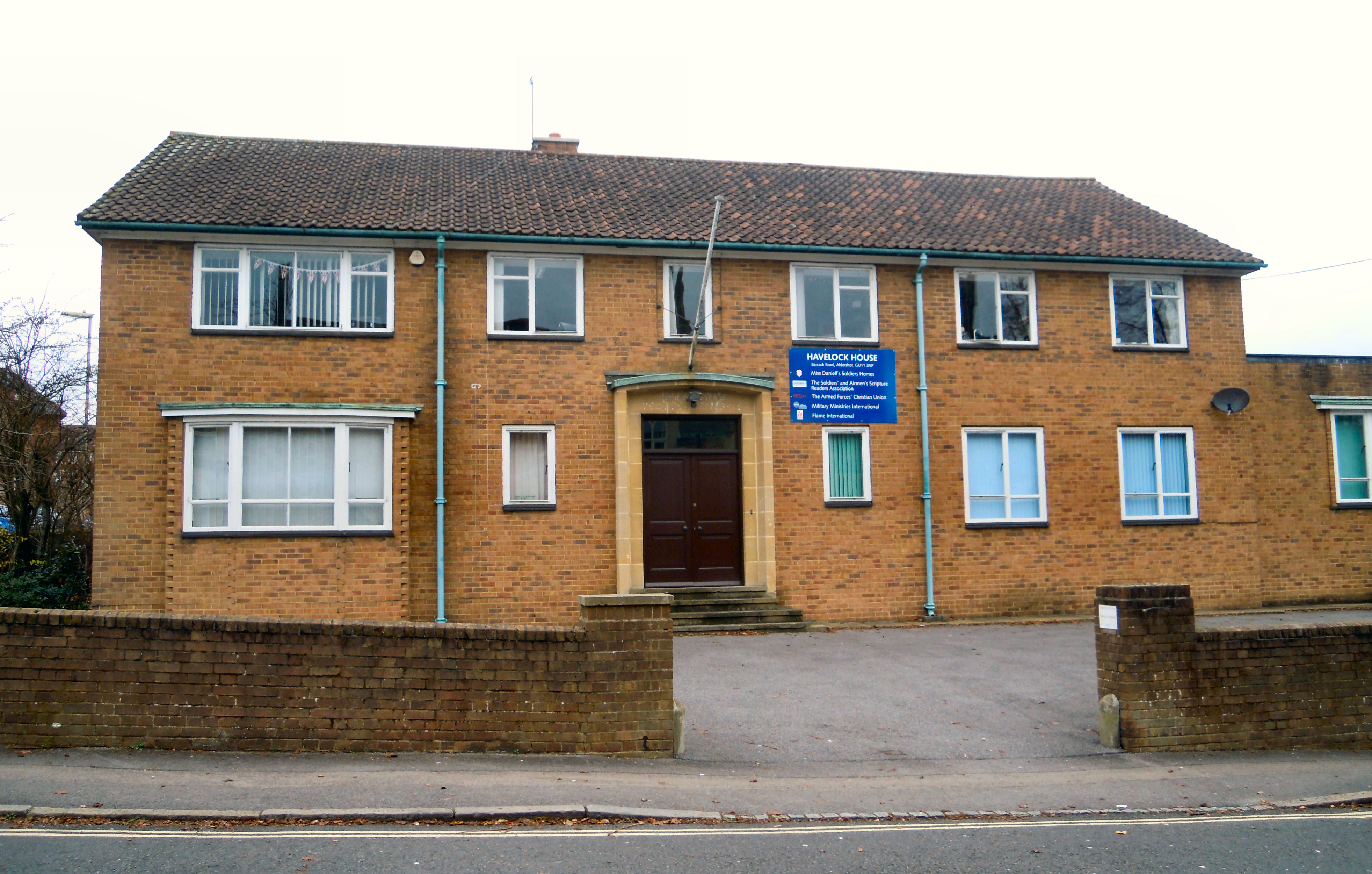 Havelock House opened in 1963 on the site of Mrs Daniell's Soldiers' Home and Institute